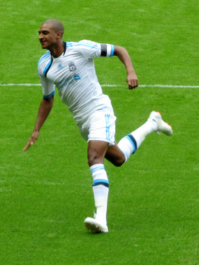 French football player, David N'Gog, during pre-season friendly Hull City v. Liverpool FC.